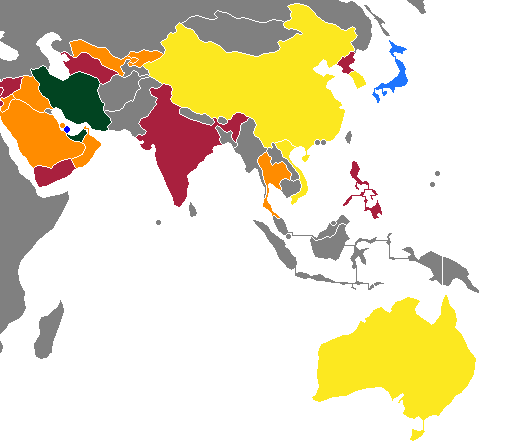 Winner Finalist Semi-finals Quarter-finals Round of 16 Group stage